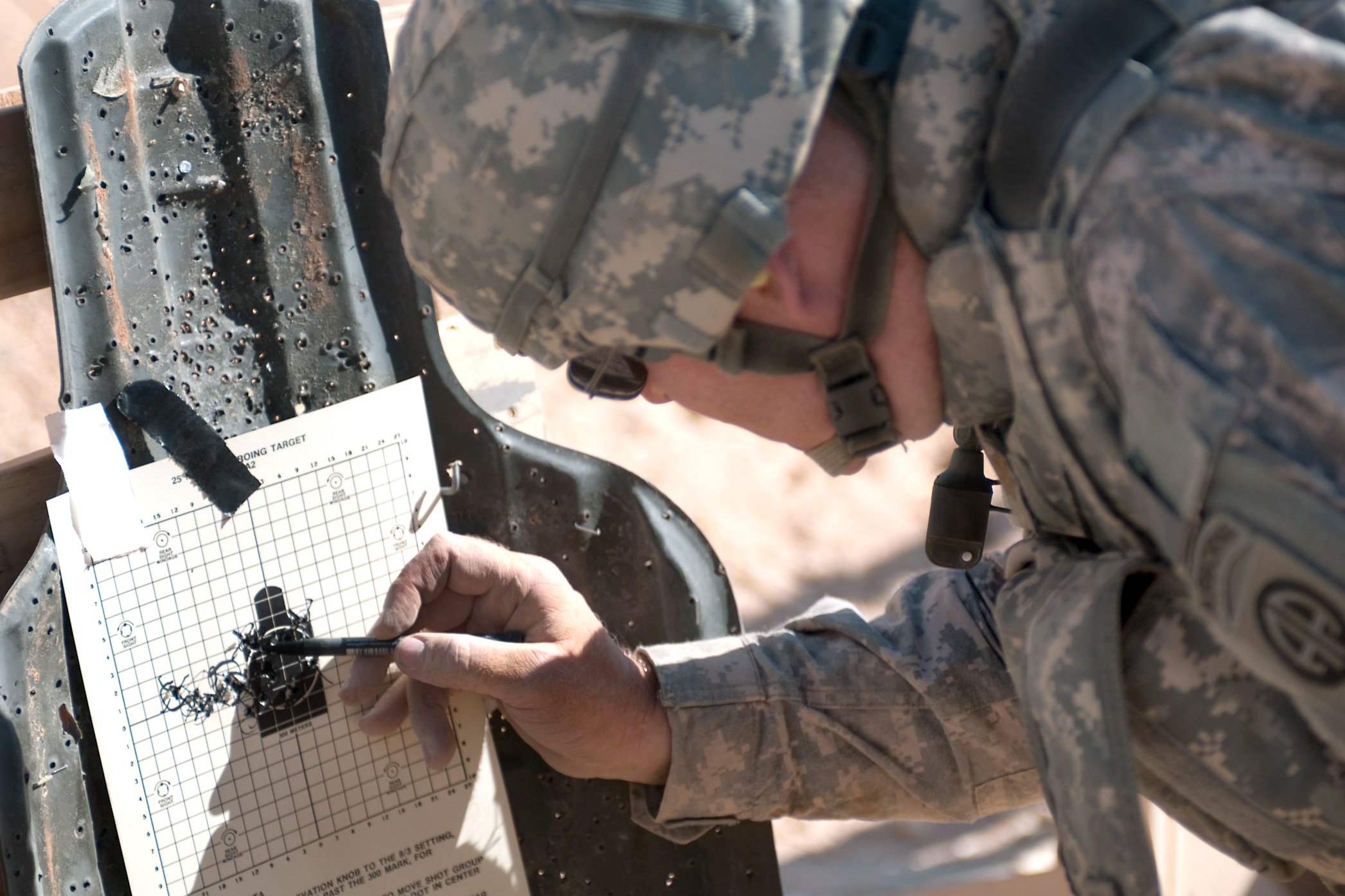 A U.S. Army paratrooper marks his old shots with ink while zeroing his M-4 rifle on a range at Al Asad, Iraq, Aug. 24, 2009. U.S. Army photo by Spc. Michael J. MacLeod